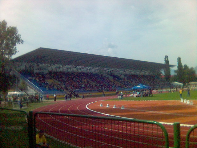 Kamberovića stadium, Zenica